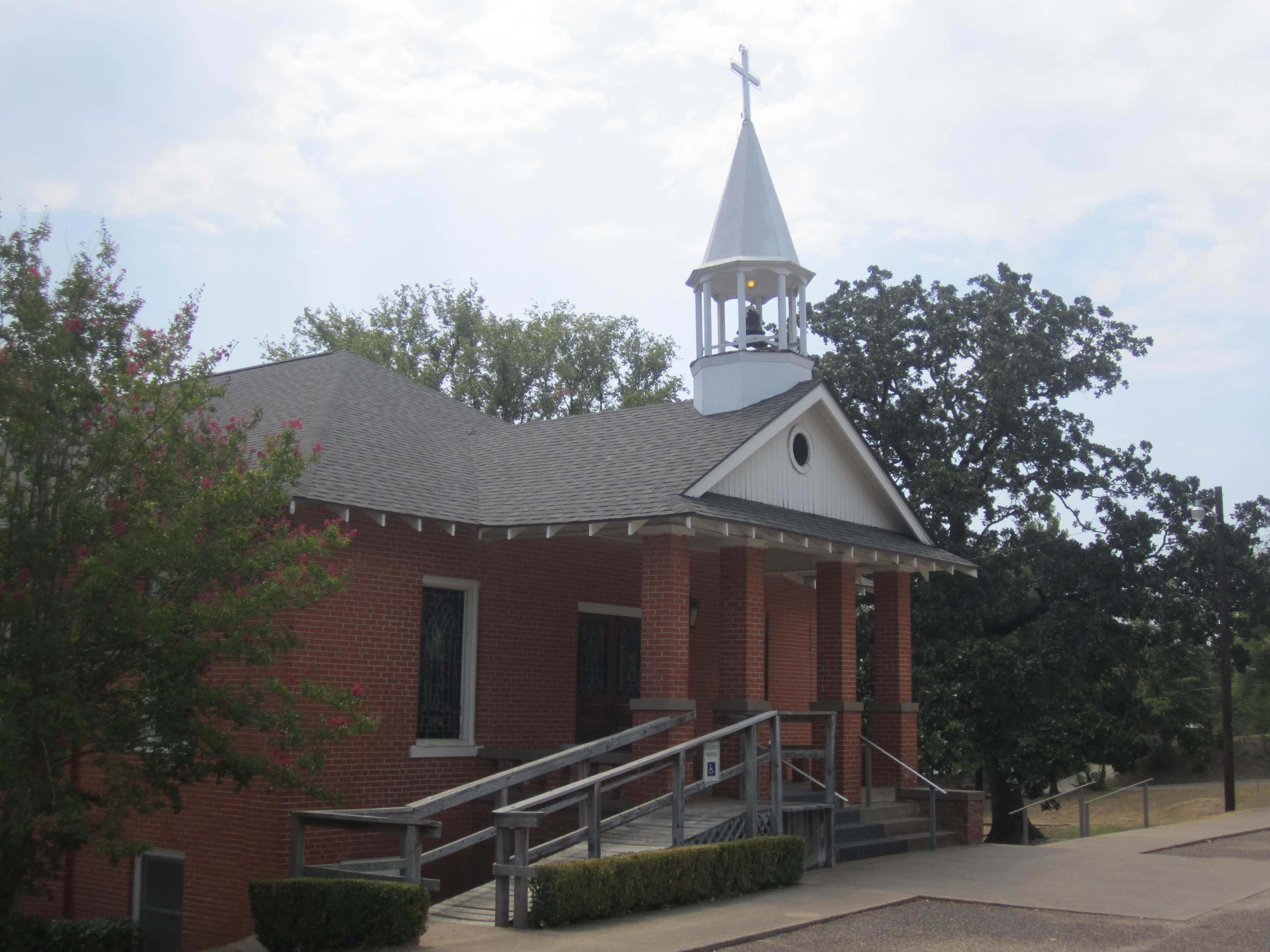 I took photo of First United Methodist Church in Winona, TX.